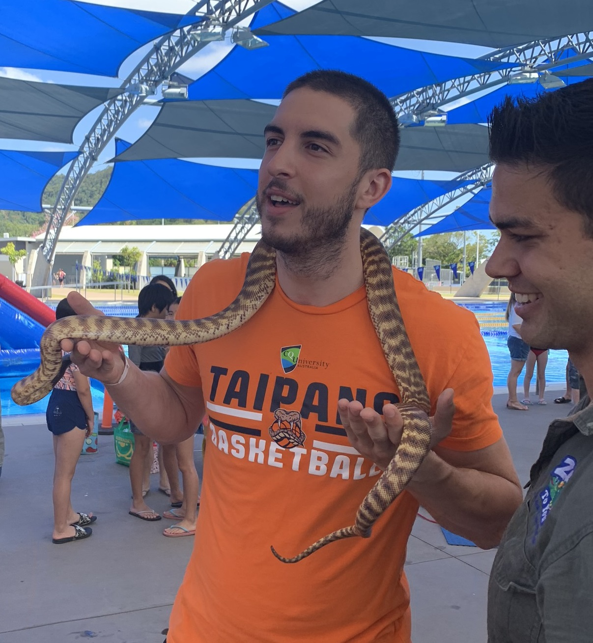 Cropped photo of Mirko Djeric